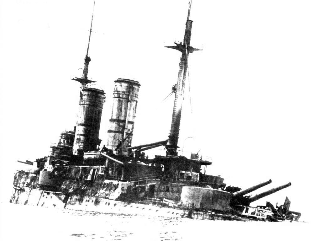 Imperial Russian battleship Slava.